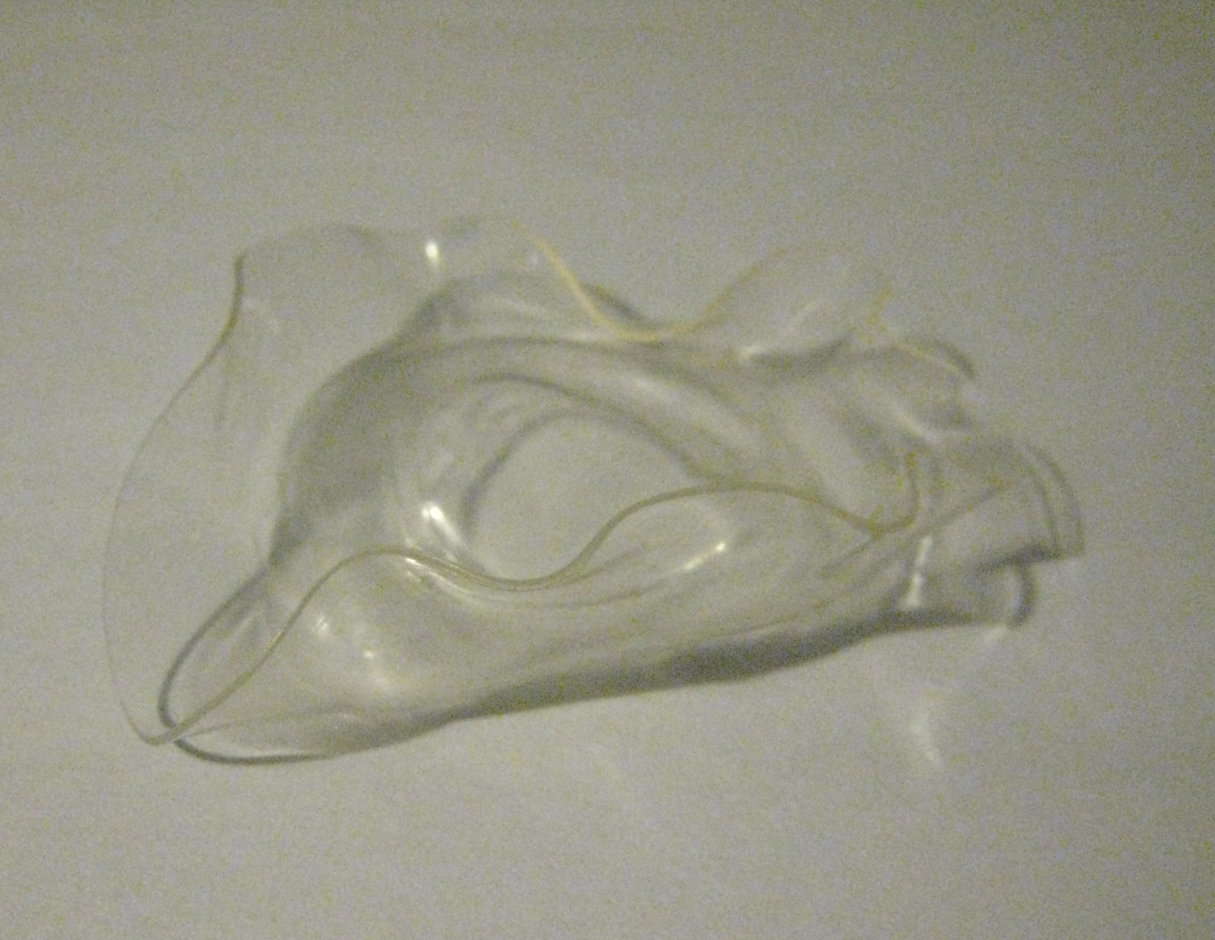 PLA cup after pouring a hot beverage in it